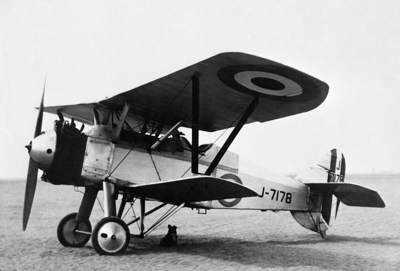 The Royal Air Force in the Middle East, 1919-1939 Armstrong Whitworth Siskin Mark III, serial number J7178, at an airfield in Egypt during tropical trials, June-December 1925.